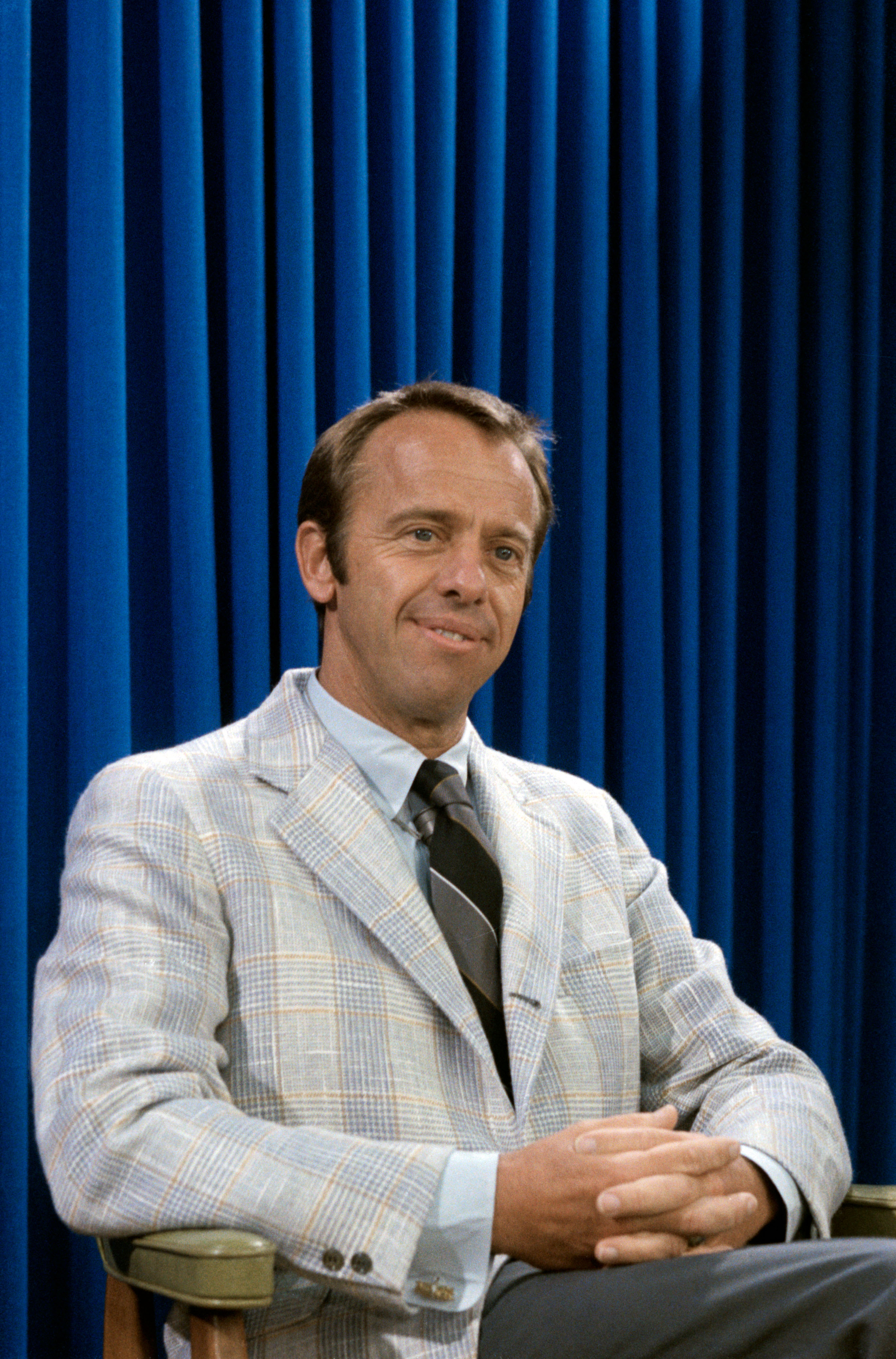 Astronaut Alan B. Shepard Jr., commander of the Apollo 14 lunar landing mission. Image ID:S70-45232